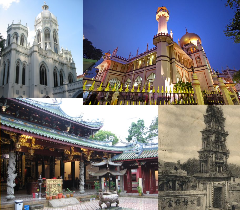 A montage of religious buildings in Singapore. Clockwise from top left: Saint Joseph's Church (June 2006), Masjid Sultan (October 2006), Sri Mariamman Temple (from a postcard, c. 1901), and Thian Hock Keng (December 2005).